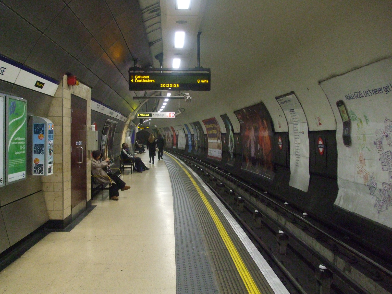 Knightsbridge tube station eastbound platform looking west